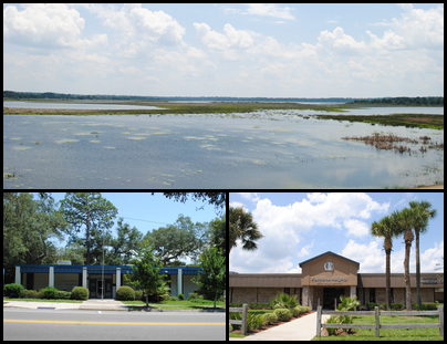 Photos I took in Keystone Heights